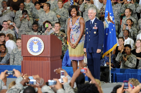 First Lady Michelle Obama and Air Force Maj. Gen. Charles R. Davis smile to the crowd before speaking on family values, Oct. 15, 2009, at Eglin Air Force Base, Fla. Davis is the commander of the Air Armament Center, Air Force Material Command at Eglin.